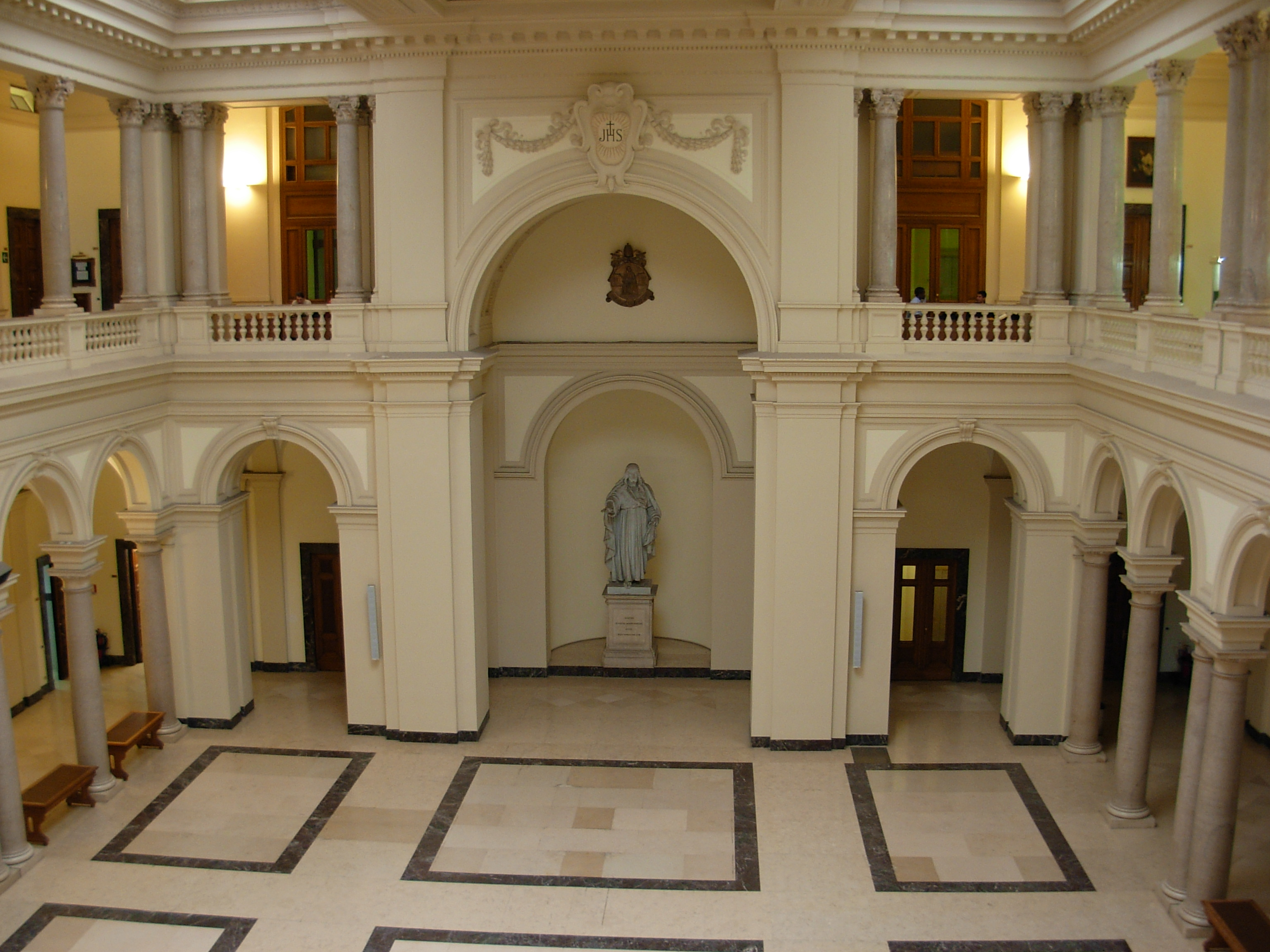 Gregoriana, atrij